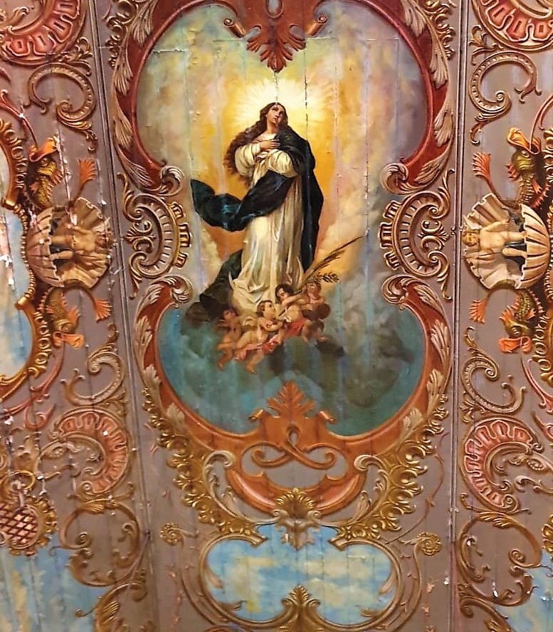 Pintura no tecto da capela da Nª Senhora da autoria do pintor Nicolau Ferreira